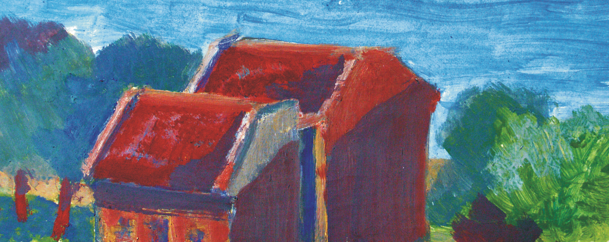 M. M. Schultz. Sky on the river (Seine). 1975. Tempera. (Fragment).